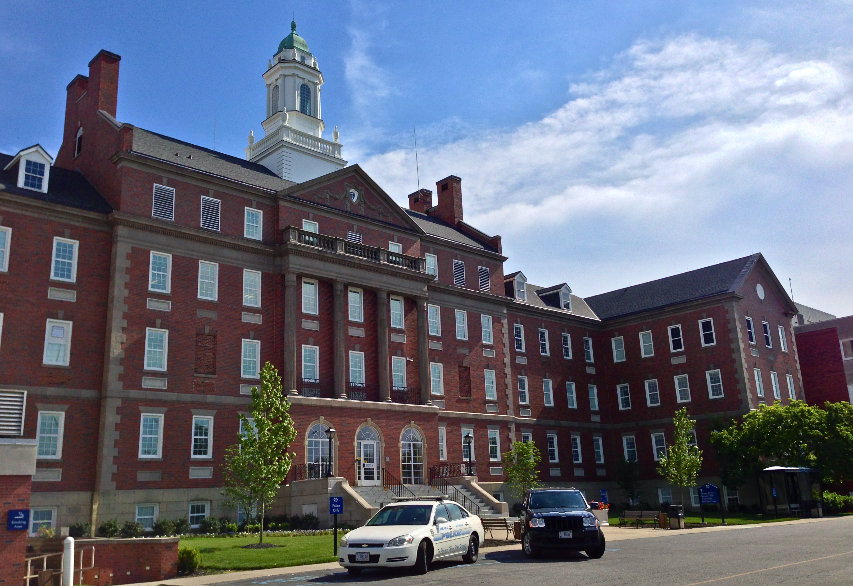 The VA Hospital in Huntington, WV.